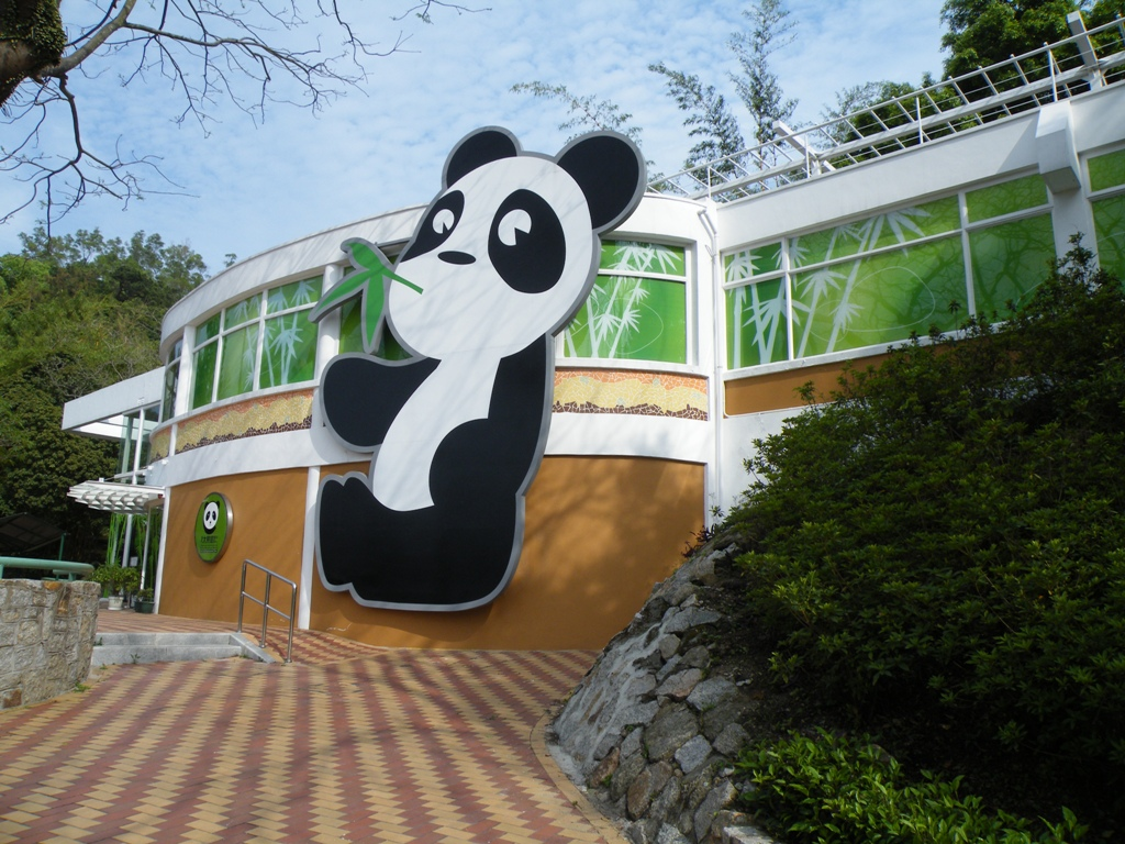 Macau Giant Panda Information Center